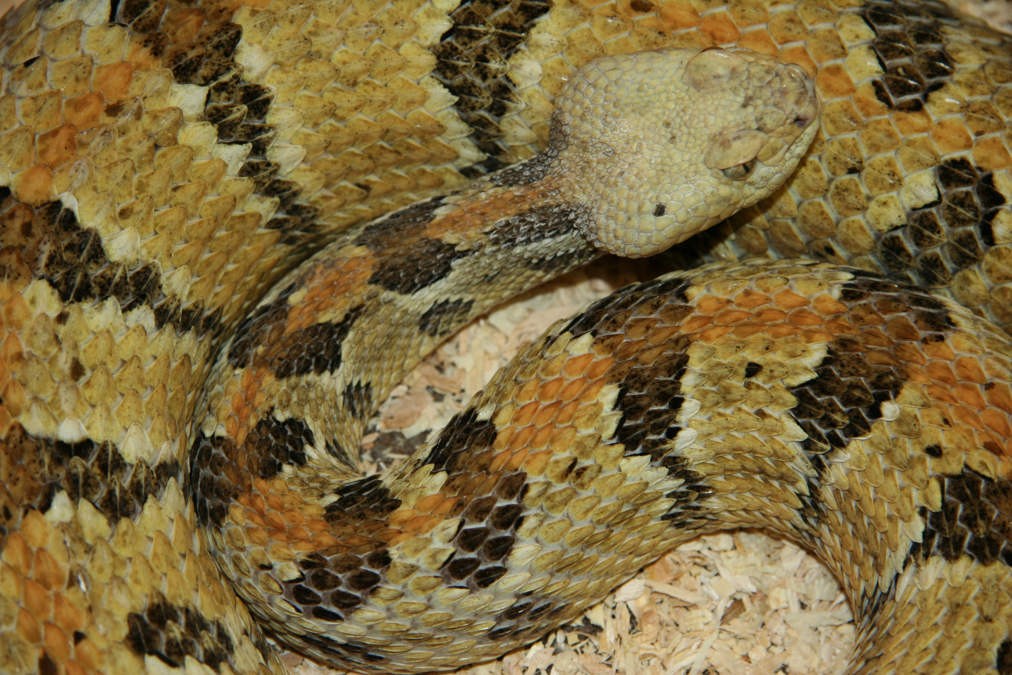 Crotalus horridus (timber rattlesnake) at the Oxbow Zollman Zoo in Olmsted County, Minnesota